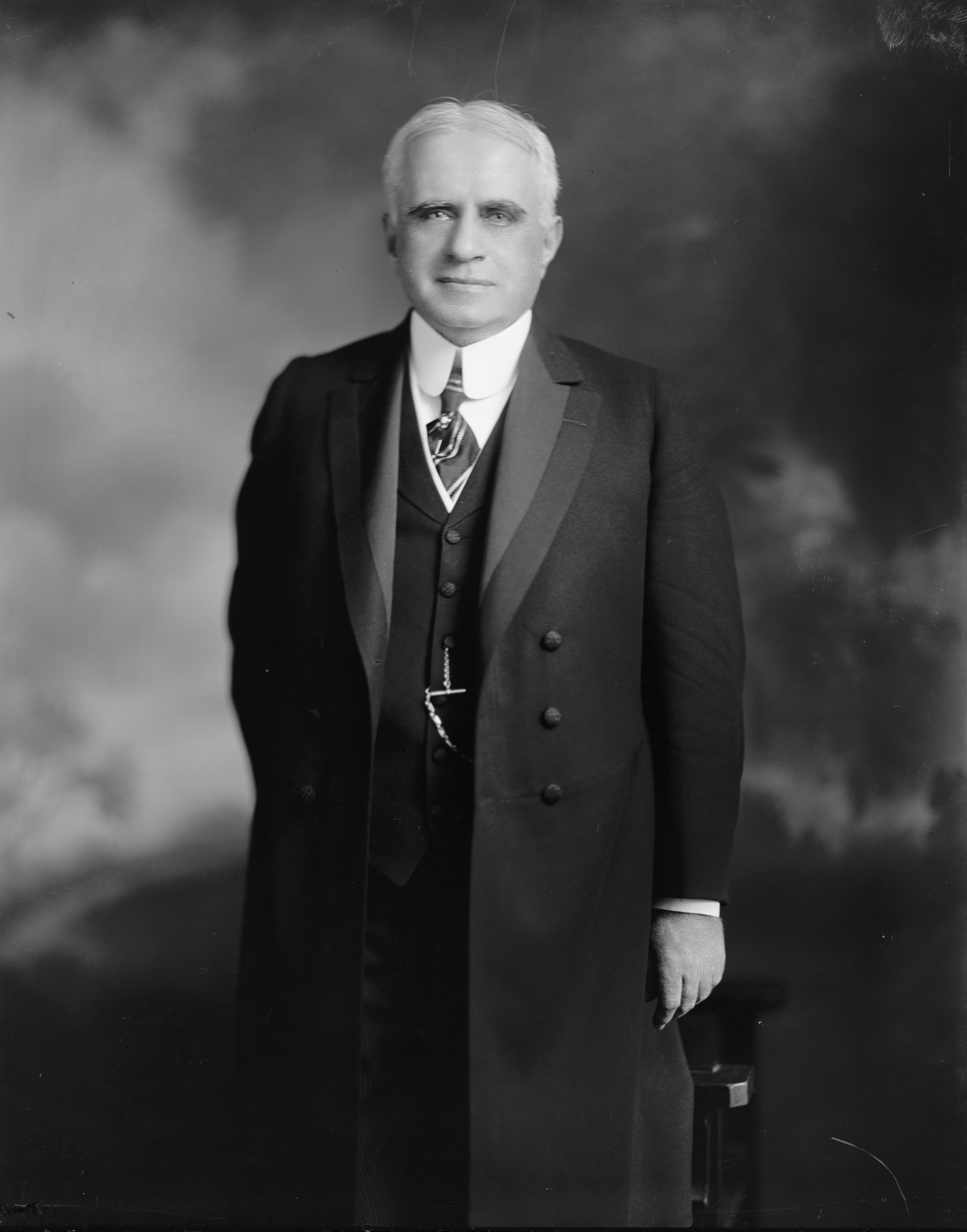 Lucius Eugene Pinkham (1850-9-19 – 1922-11-2), fourth Territorial Governor of Hawaiʻi (1913 to 1918)